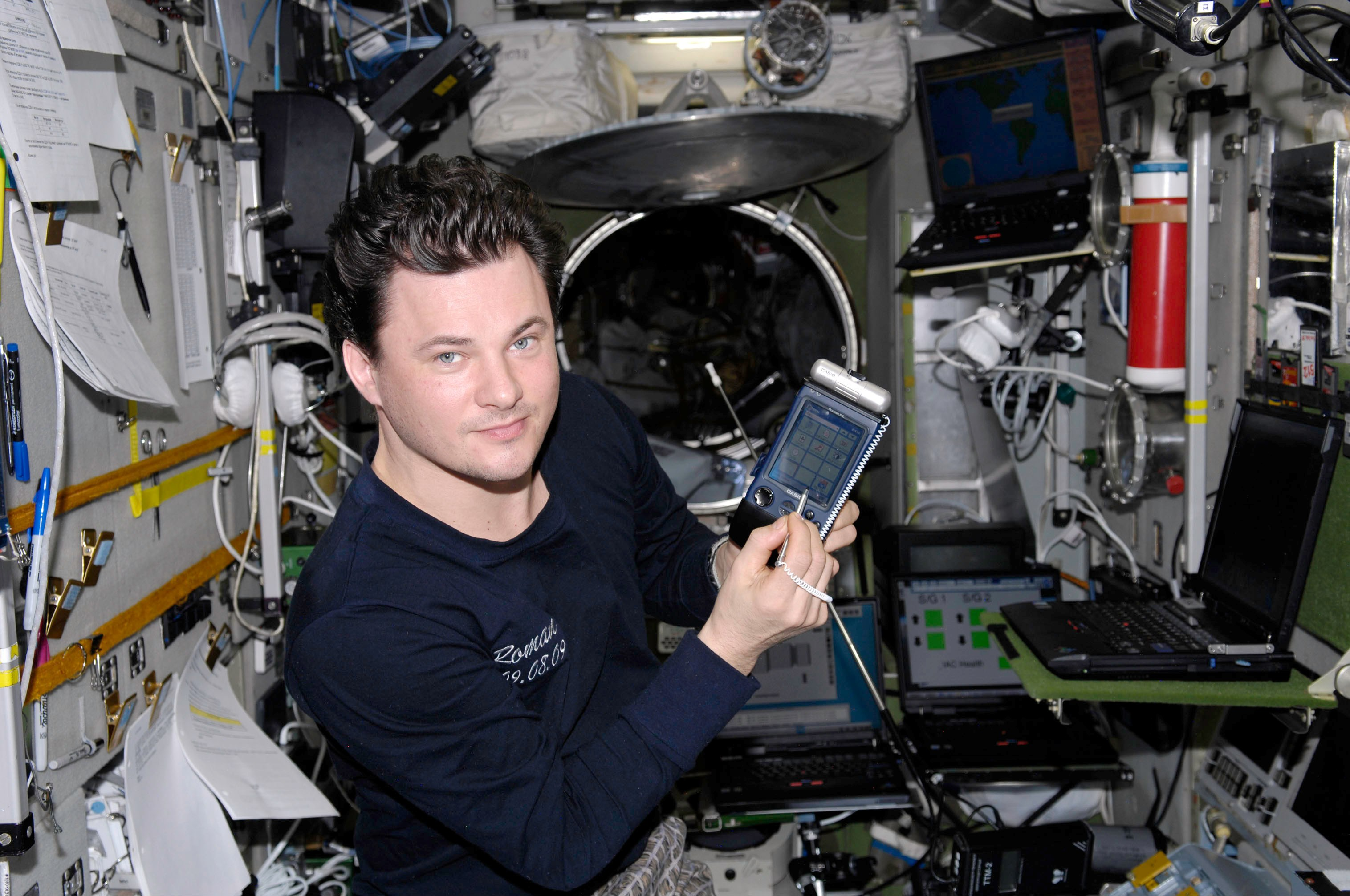 Russian cosmonaut Roman Romanenko, Expedition 20 flight engineer, uses the Russian BAR/EXPERT science payload to take various environmental measurements in the Zvezda Service Module of the International Space Station.